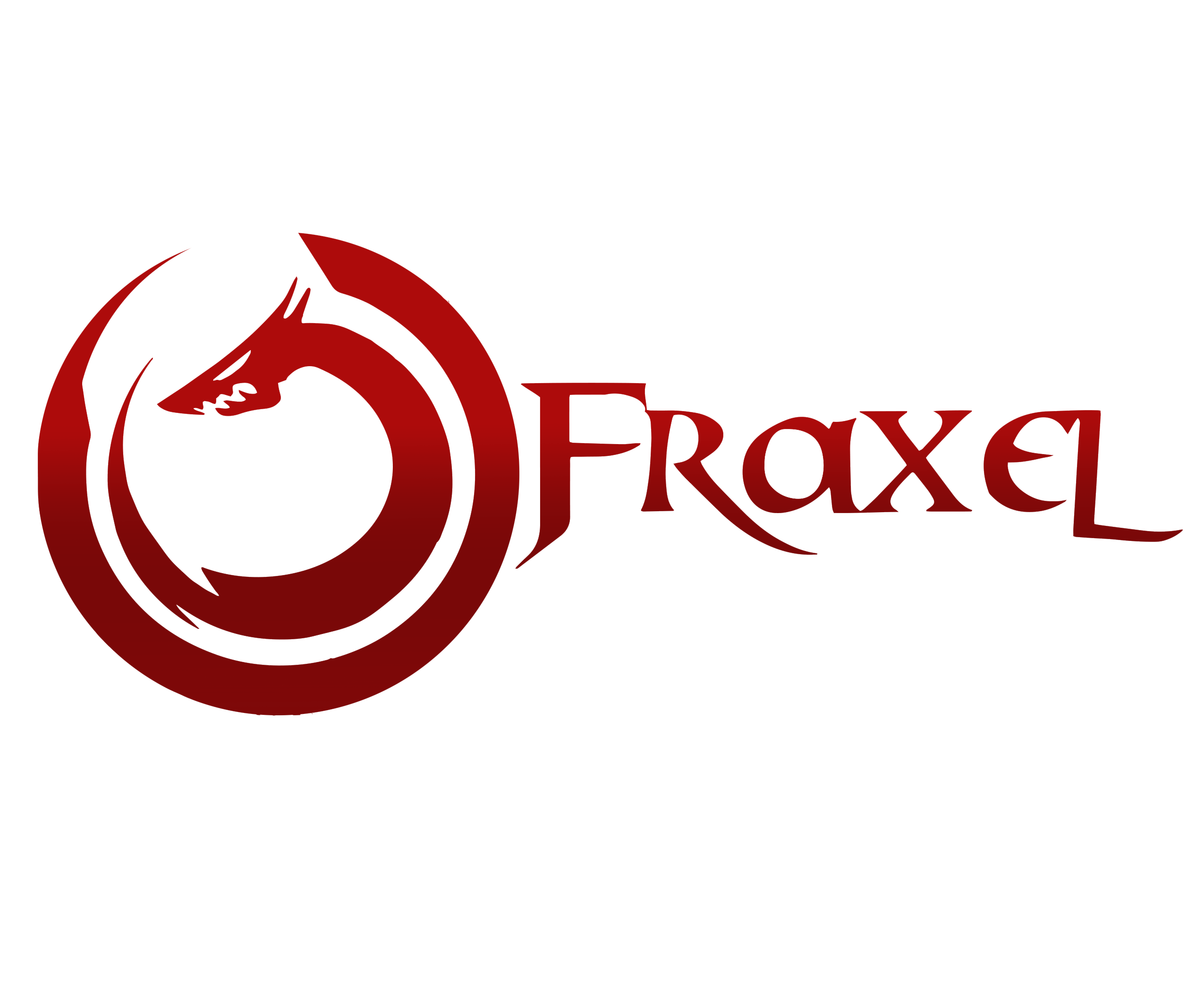 Logo Fraxel